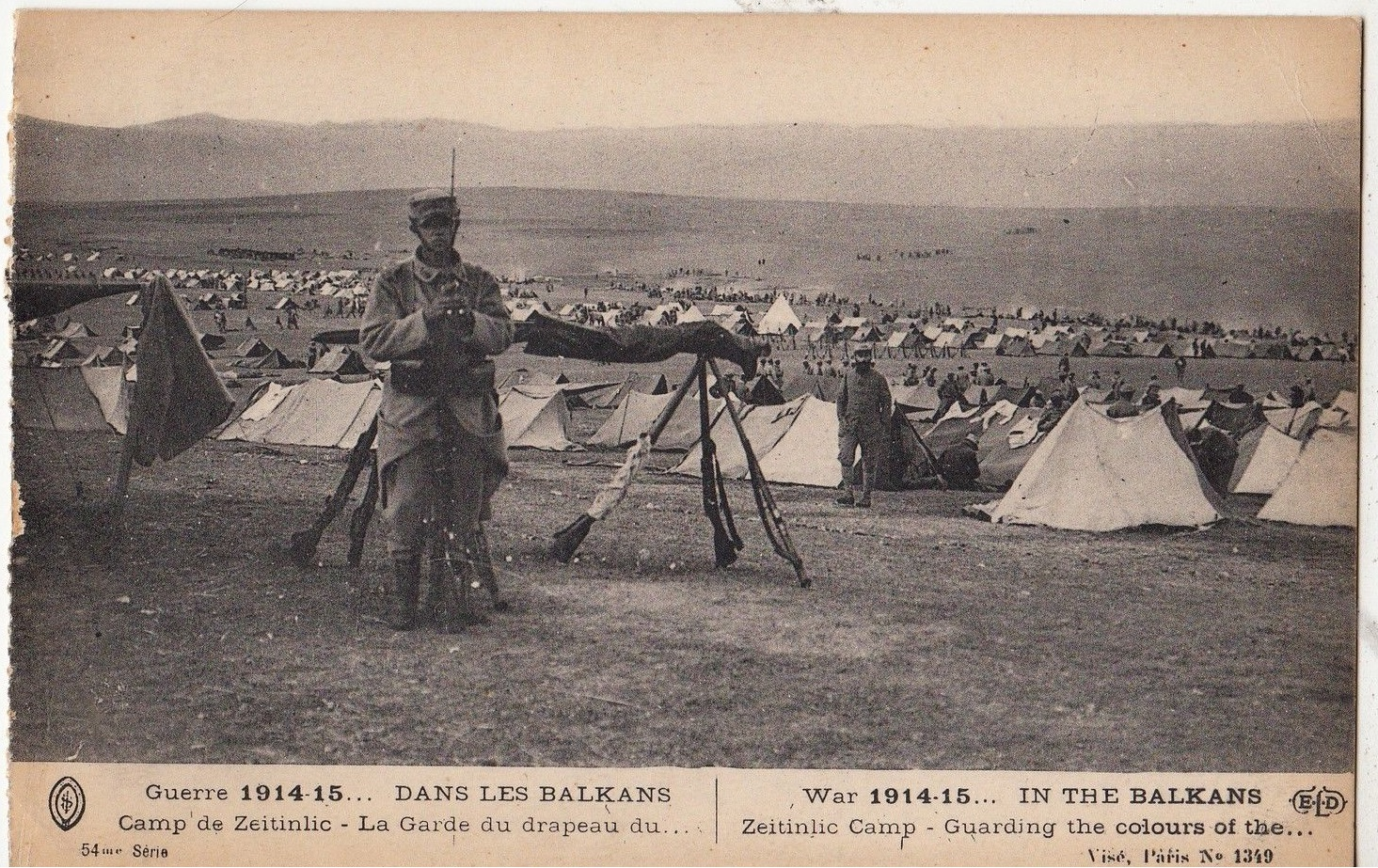 Zeitinlik Campp 1914 - 1915